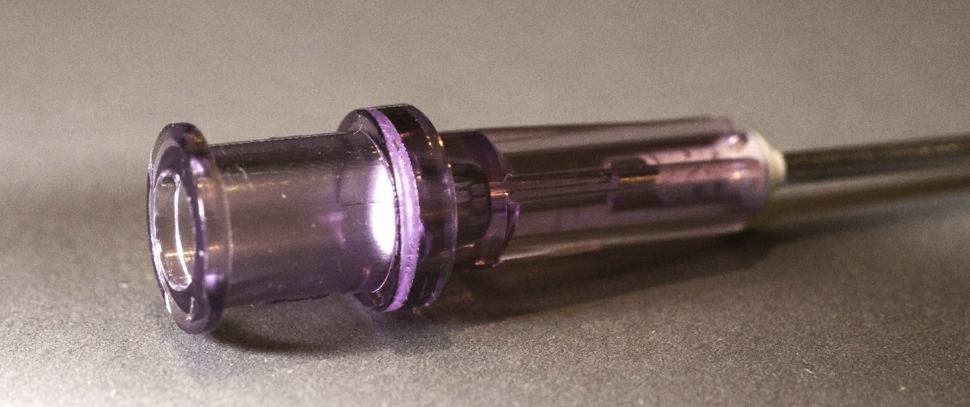 B-D 5 micron filter needle with Luer-Lock type screw in base for syringe attachment. If you look close, you will see a round white patch inside of the translucent purple hub - this is the “filter.”